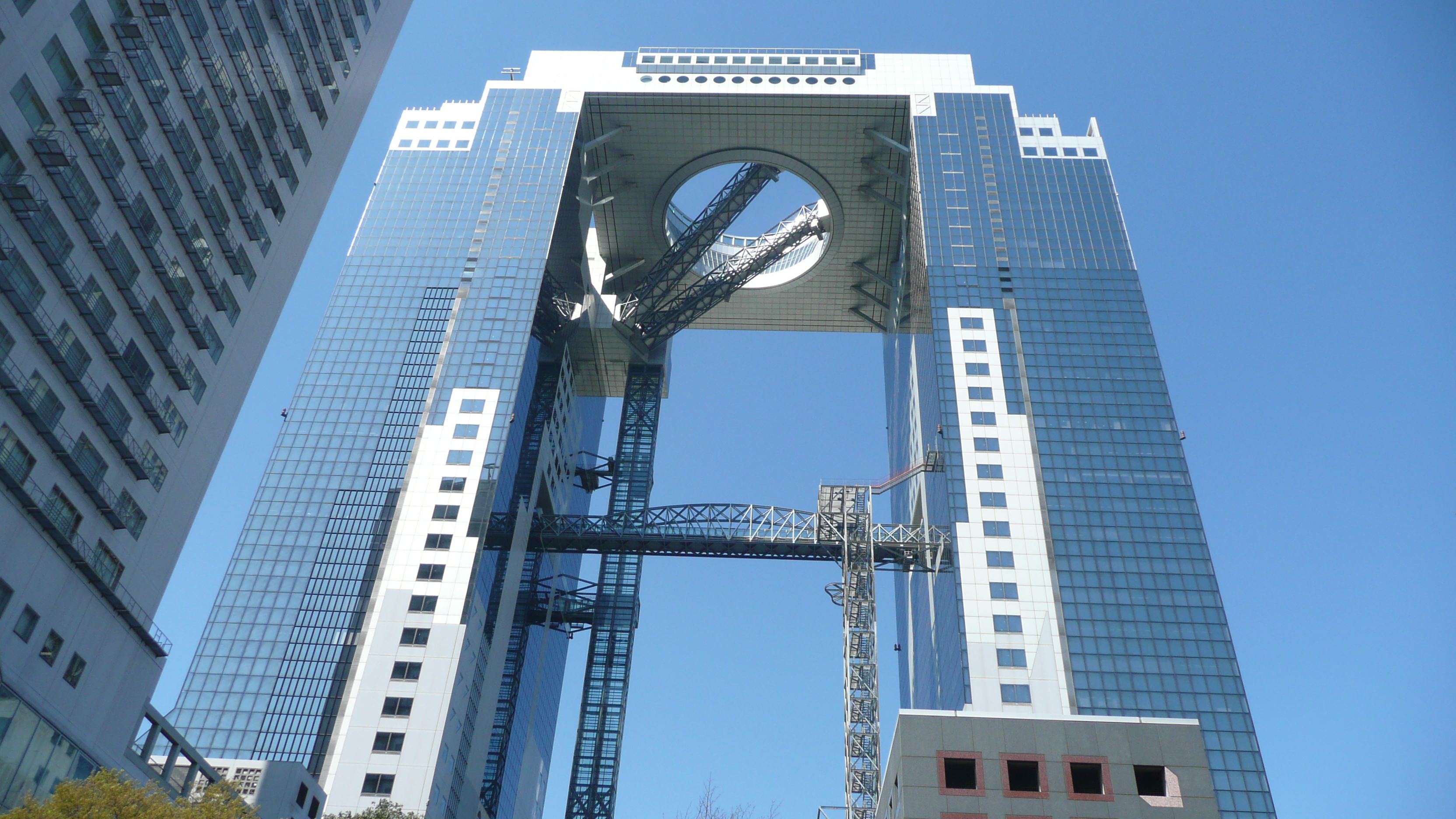 Umeda Sky Building in Osaka